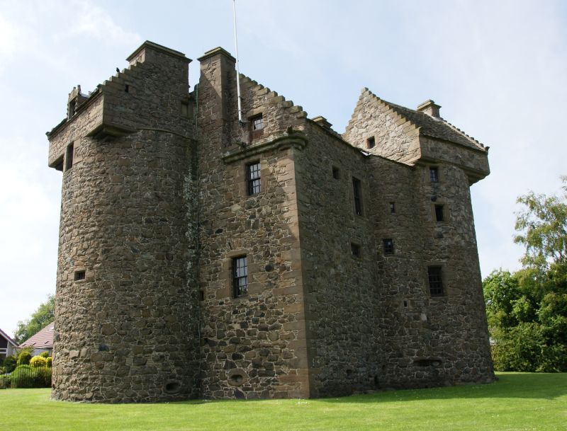 Claypotts Castle near Dundee, Scotland